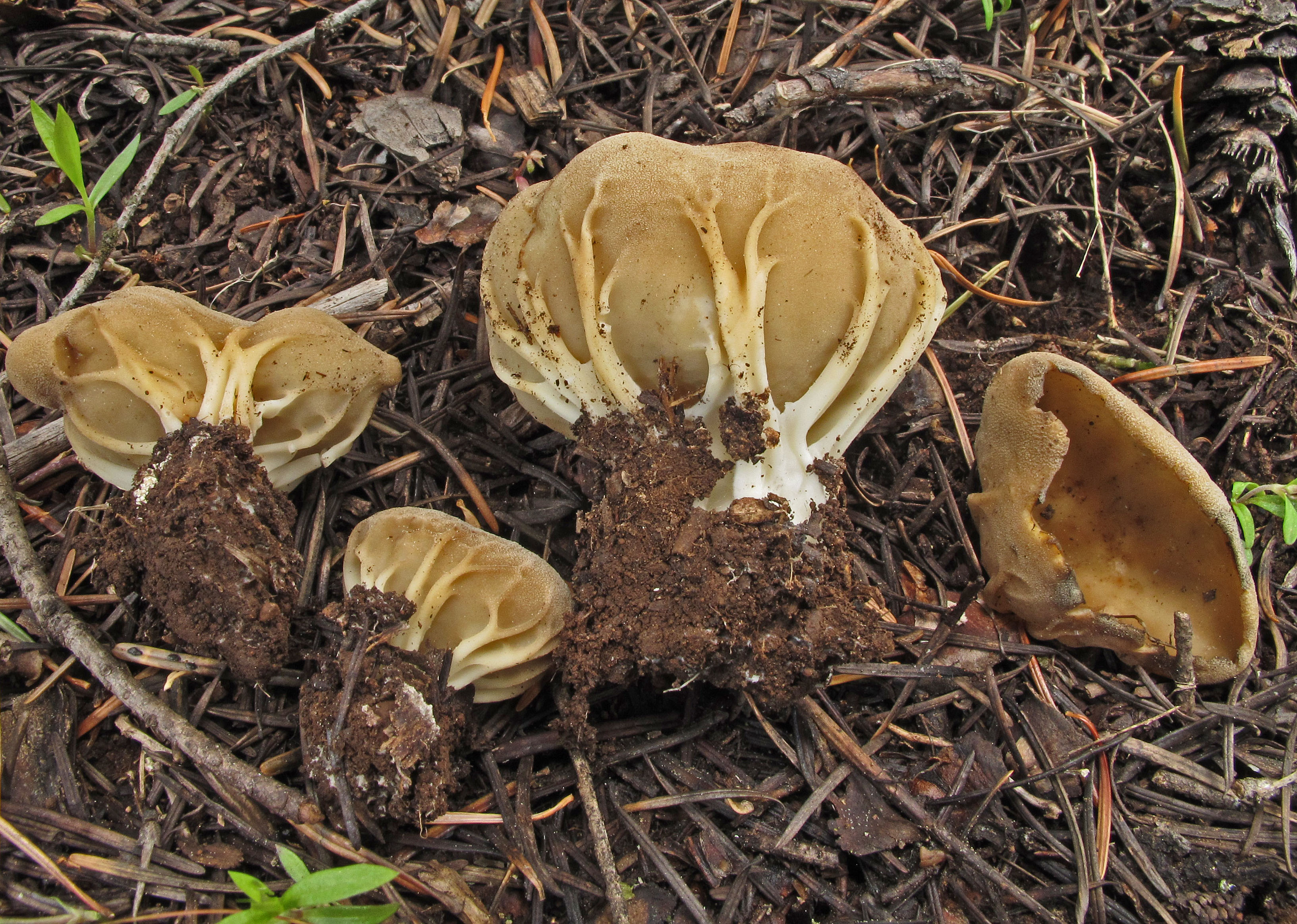 Helvella acetabulum (L.) Quél. Location: Mount Hood, Oregon, USA For more information about this, see the observation page at Mushroom Observer.